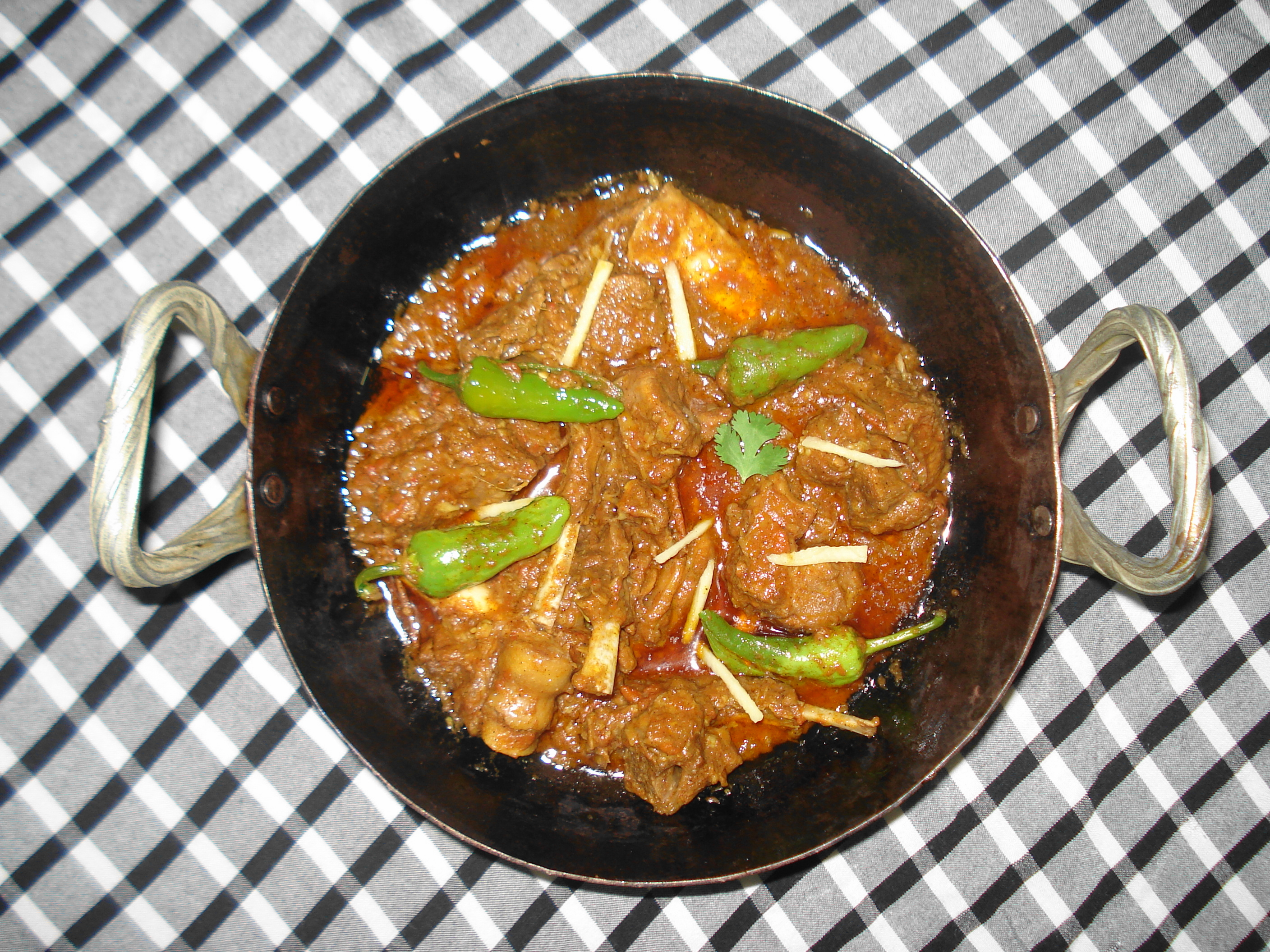 Balti Gosht